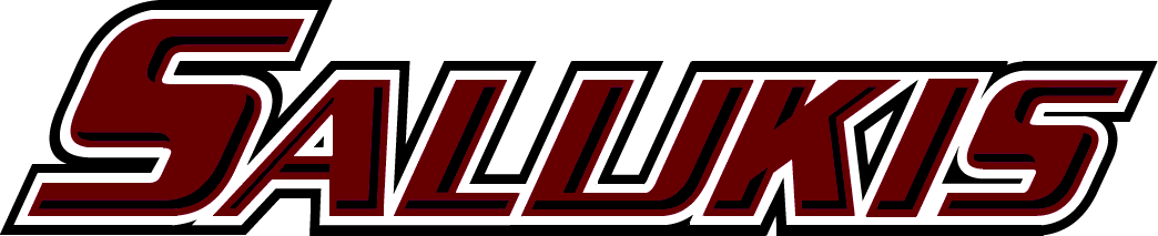 Logo for the Southern Illinois Salukis athletics program.